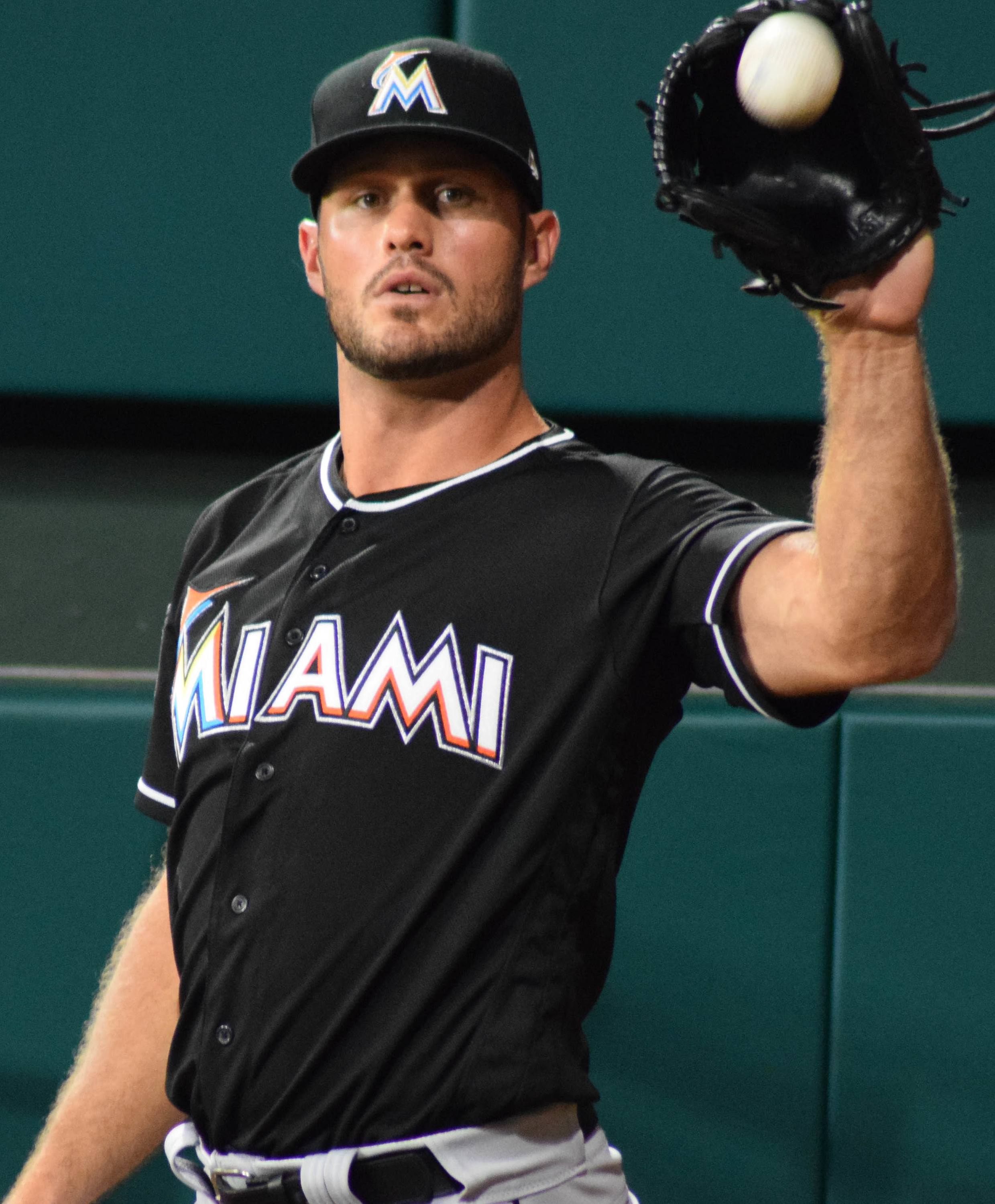 Miami Marlins Relief Pitcher Tyler Kinley